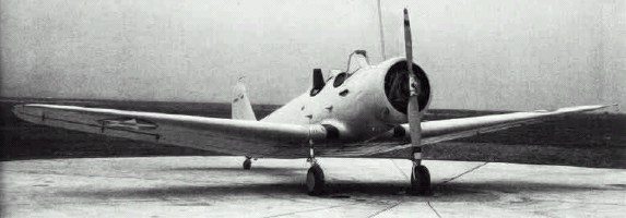 The single U.S. Navy Naval Aircraft Factory XN5N-1 (BuNo 1521). It made its first flight on 15 February 1941 and was donated by the U.S. Navy to trade scool in 1947.